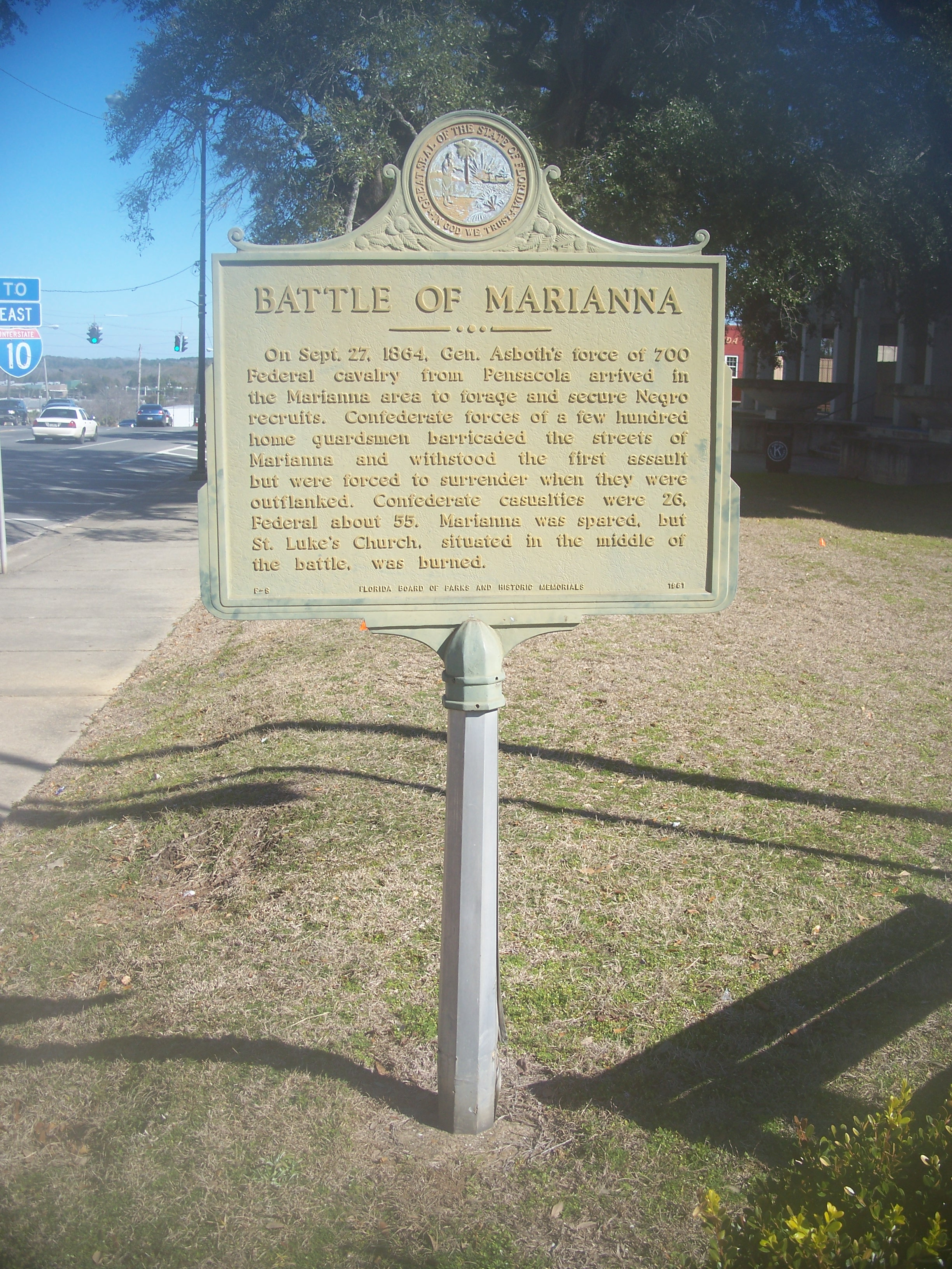 Marianna, Florida: County courthouse